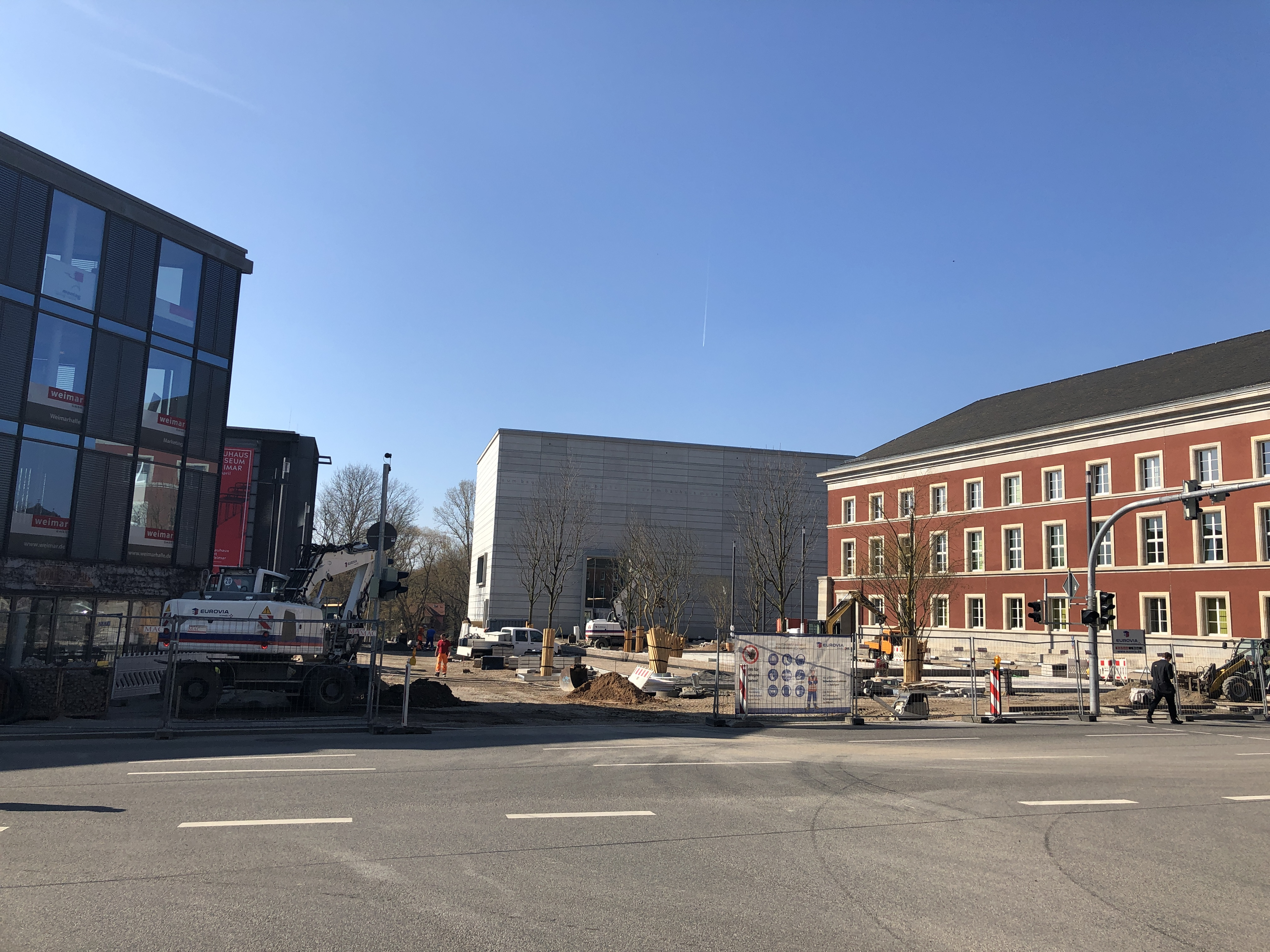 Bauhaus Museum Weimar under construction, Stéphane-Hessel-Platz 1, photographed on 21 March 2019